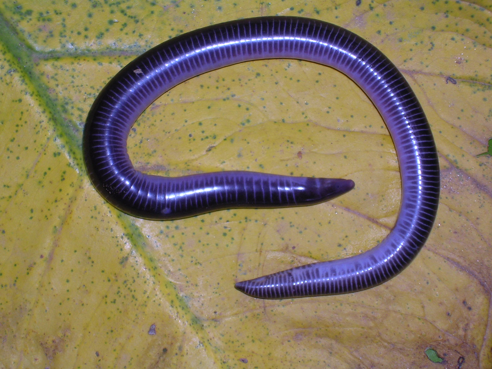 Uraeotyphlus oxyurus habitus